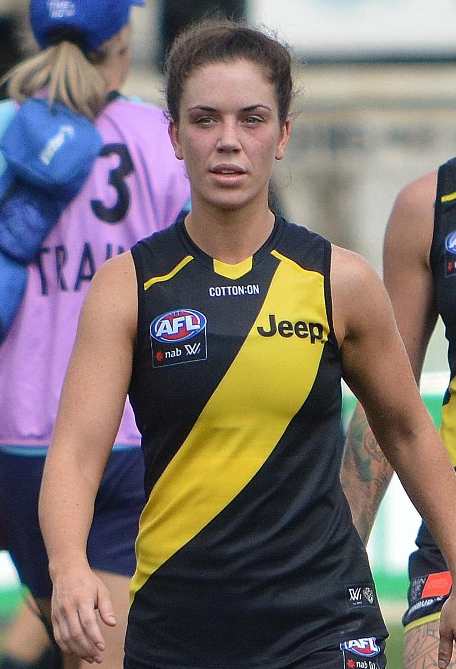 Grace Campbell with Richmond during the round 3, 2020 AFL Women's match against North Melbourne at Ikon Park.